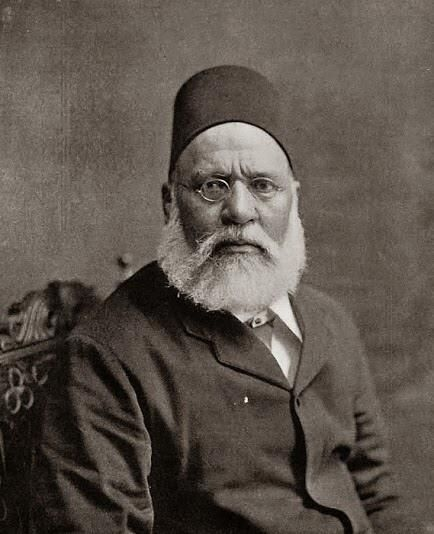 Ahmed Orabi 1900 1900